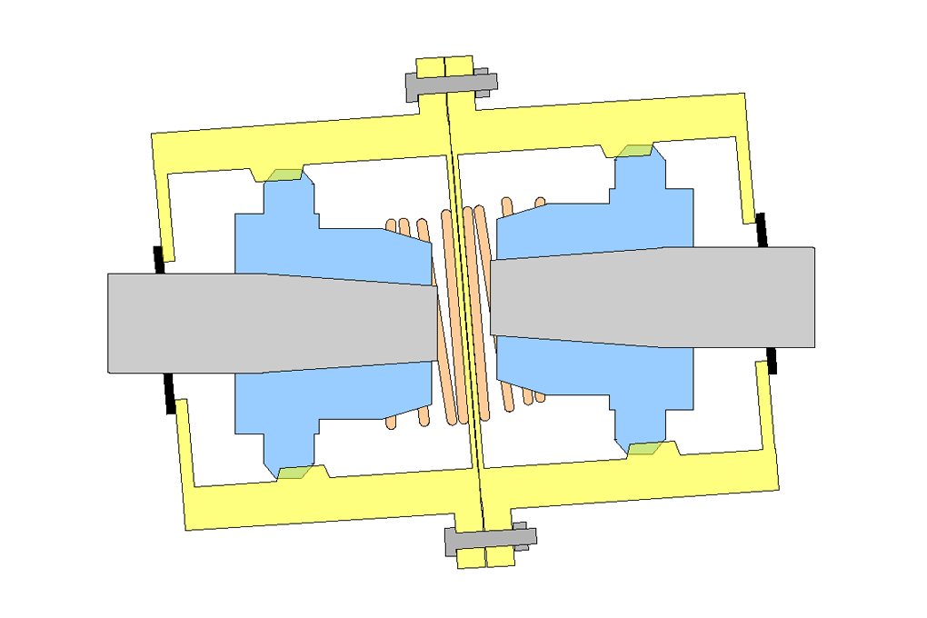 A schematic view of the WN coupling.